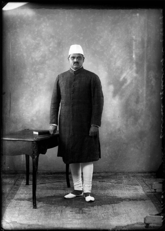 Portrait of Pandit Govind Malaviya